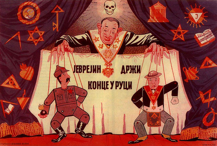 A Serbian poster for an exhibition in 1941-1942 during the Fascist regime of Milan Nedic, showing the Jews and Masons controlling the Soviet Union and the United Kingdom, with marionettes of Stalin and Churchill. Caption: "The Jew is holding the strings. Whose strings and how? He'll answer you. The anti-masonic exhibit"